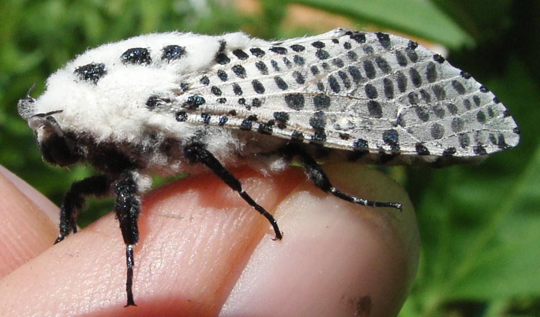 Zeuzera pyrina (Leopard moth) in Cologne, Germany.